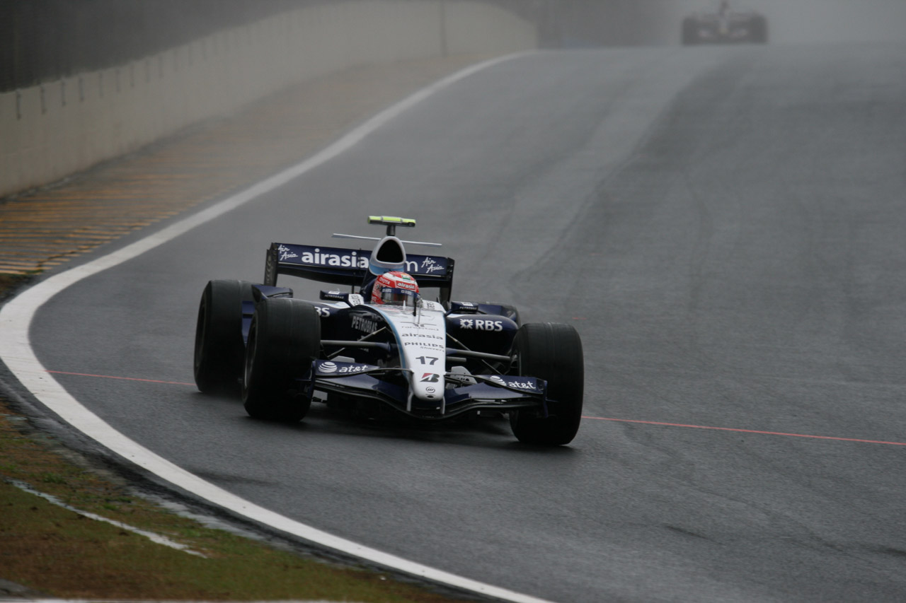 Formula One 2007 Rd.17 Brazilian GP: Kazuki Nakajima (Williams) at the free practice 1 on Friday